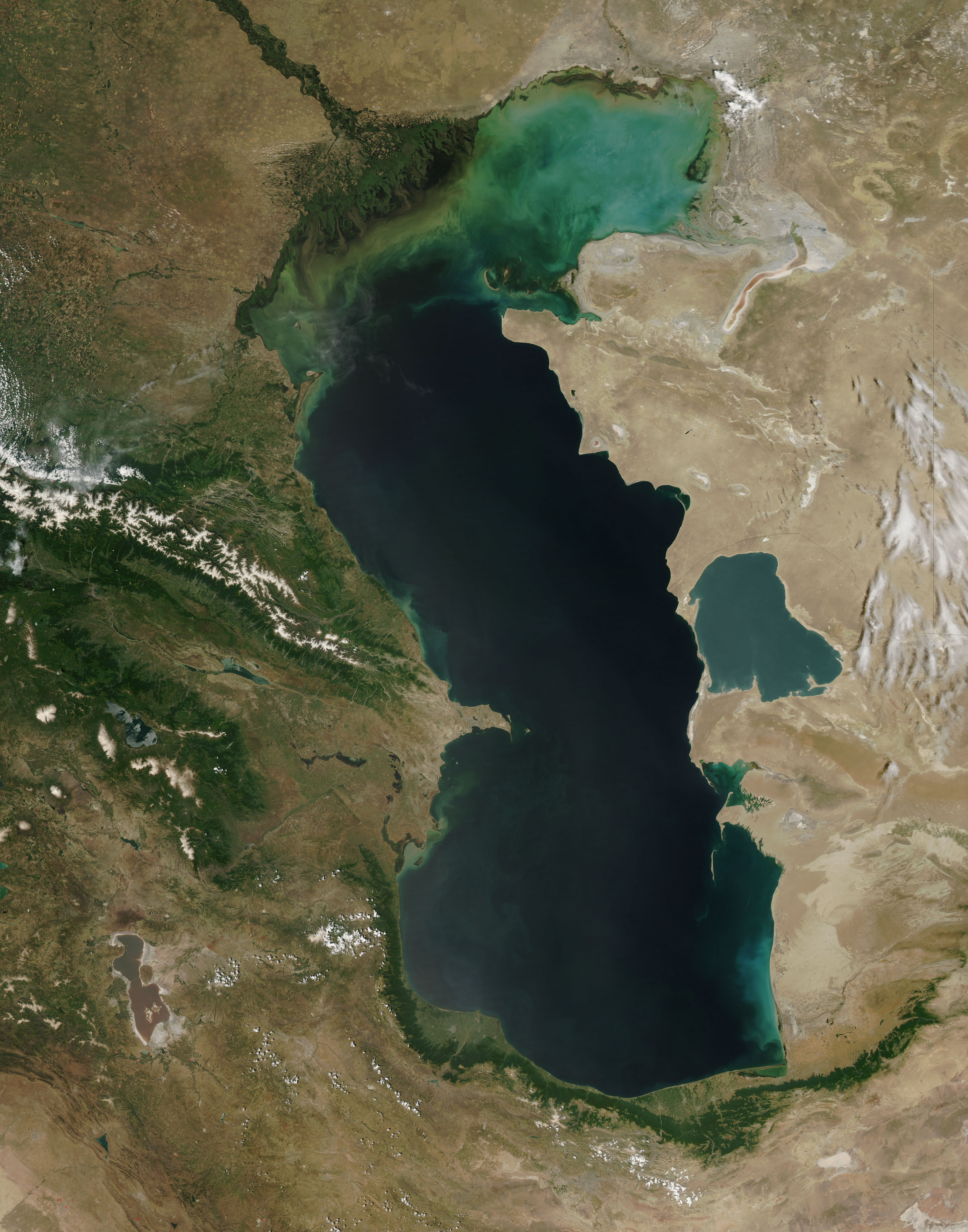 This is a view from orbit of the Caspian Sea as imaged by the MODIS sensor on the Terra satellite. Caption: The original caption from NASA: ::"The northern part of the Caspian Sea is plagued by a process called eutrophication, in which agricultural run-off rich in fertilizers stimulates rampant growth of algae in the water. The death and decay of these algae robs the water of oxygen, with obvious negative consequences for aquatic life. This image of the Caspian Sea shows swirls of green and blue near the mouth of the Volga River (top center), which indicate the presence of algae. The bright blue color of the northeastern part of the sea may be due to a mixture of plant life and sediment, for this is where the sea is most shallow. This image is from the Moderate Resolution Imaging Spectroradiometer (MODIS) on the Terra satellite on June 11, 2003.